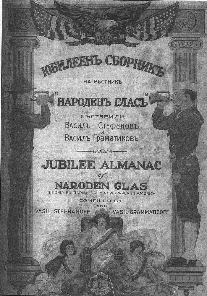 Jubilee Almanac of Naroden Glas